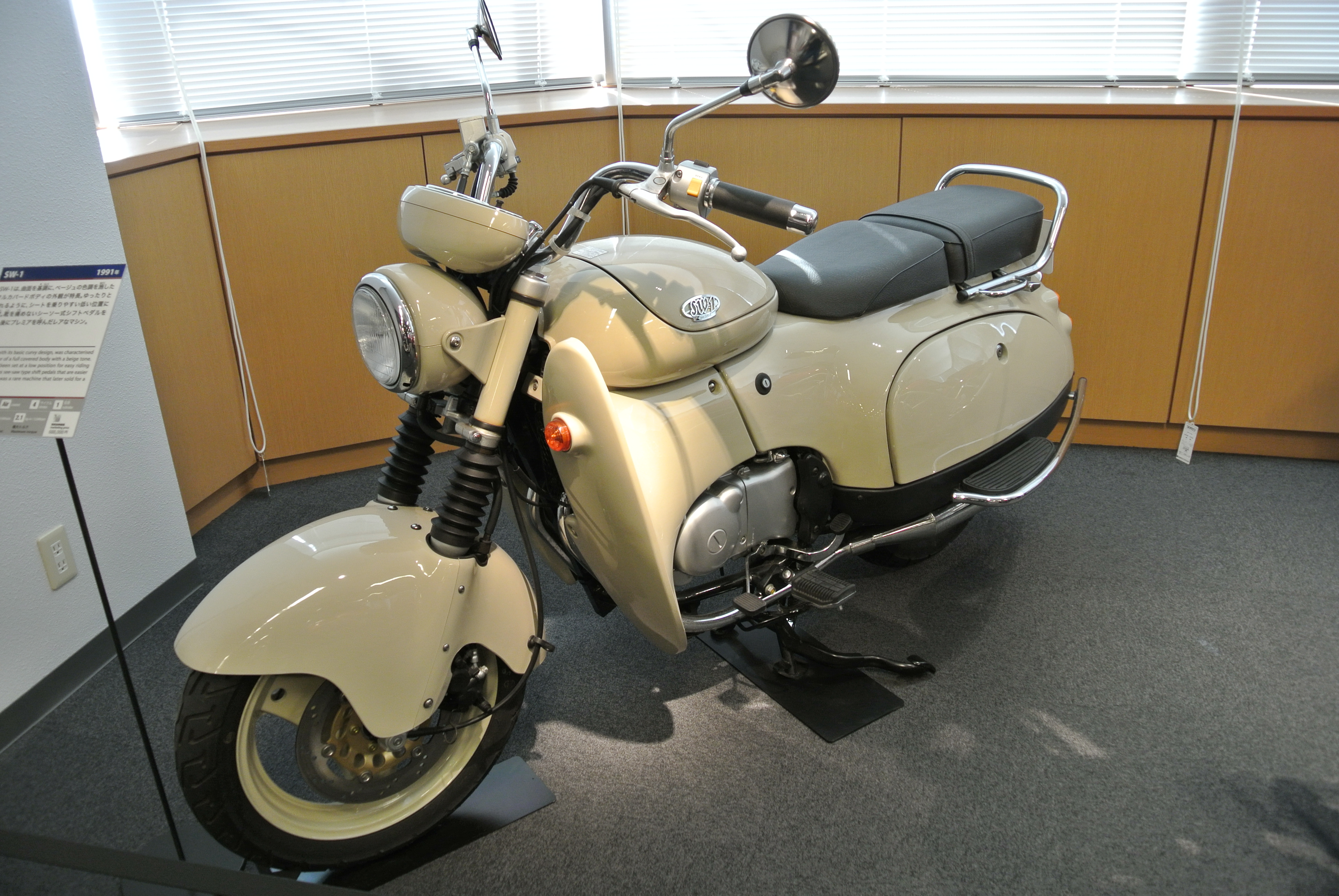 1991 SW-1 in the Suzuki History Museum.